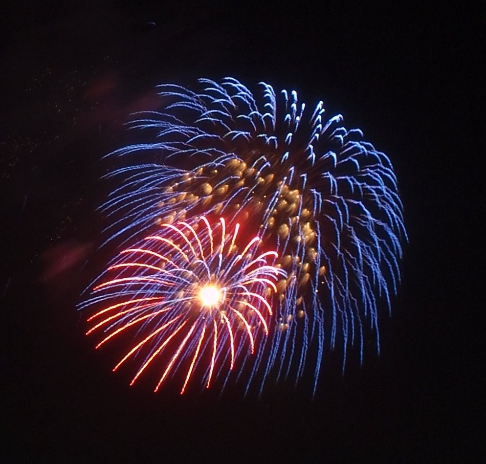 Fireworks on the eve of the Shiogama Minato Festival.